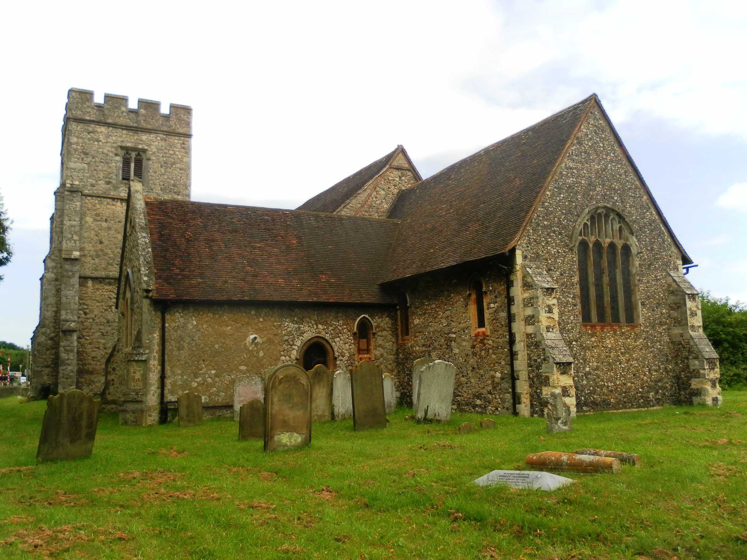 All Saints' parish church, Mill Street, Snodland, Kent, seen from the southeast